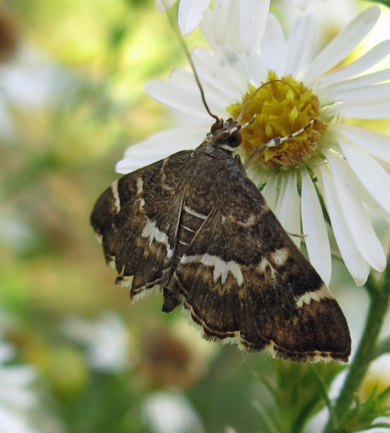 Hymenia prerspectalis, Wheatley, Ontario, Canada.